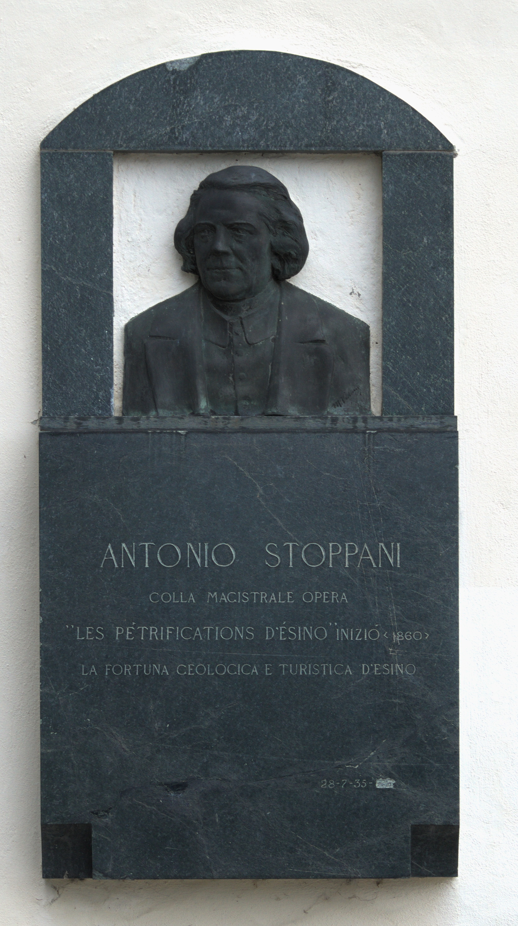 Plaque to Antonio Stoppani, on Exterior of Esino Lario church, Italy